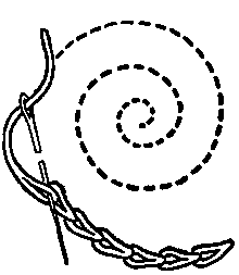 Split stitch, from Samplers and Stitches, a handbook of the embroiderer's art by Mrs Archibald Christie, London 1920/New York, 1921